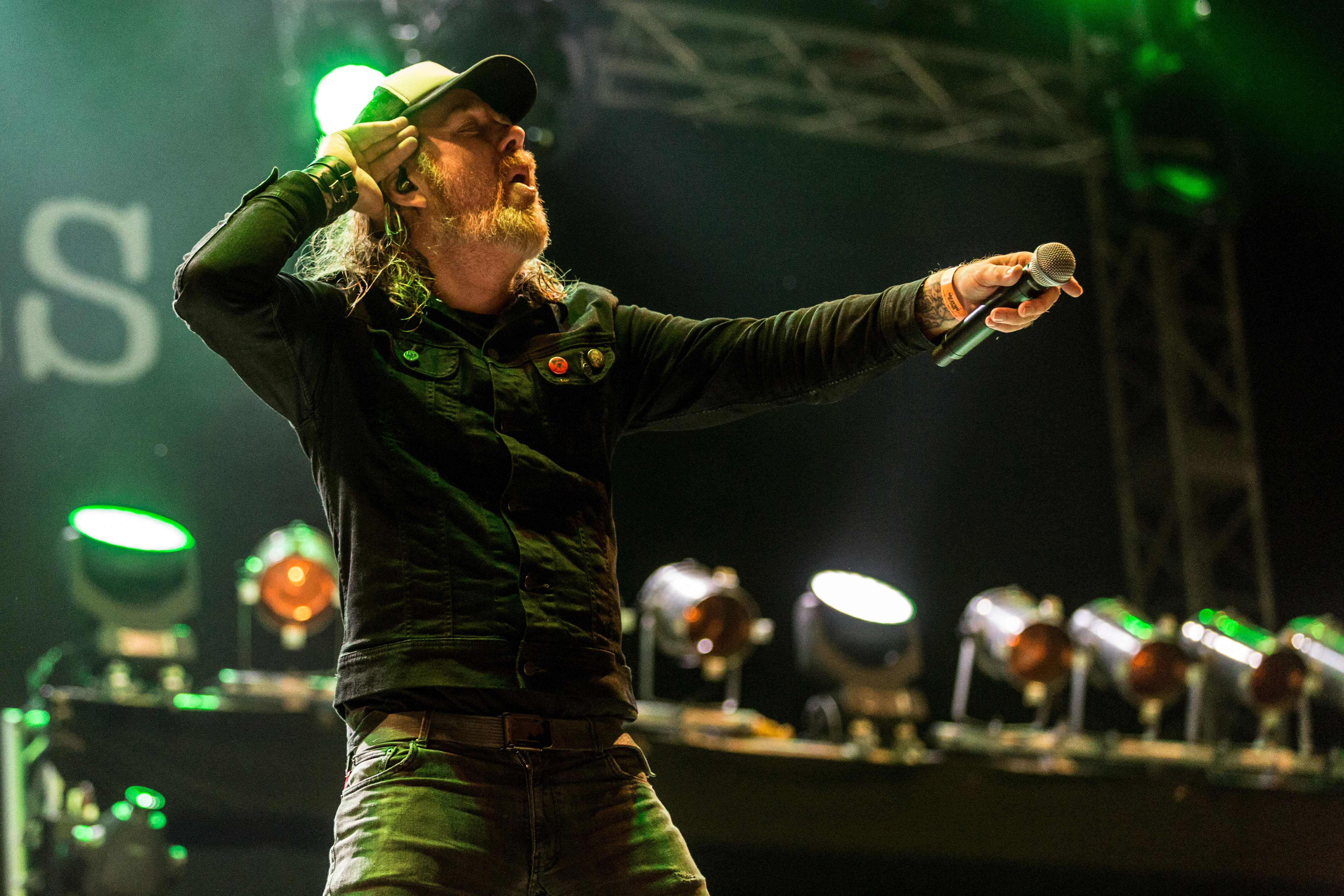 The Swedish melodic death metal band At the Gates at the Party.San Metal Open Air 2016 in Obermehler-Schlotheim/Germany.